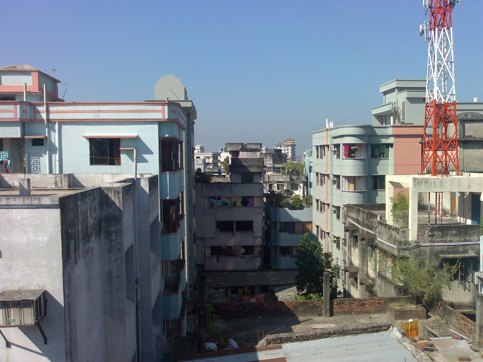 Mohammadpur Thana, Dhaka, Bangladesh. Taken with a Nokia N80.